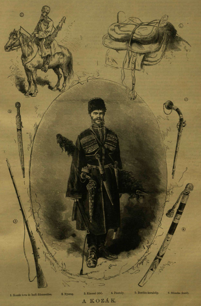 Cossack